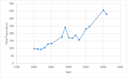 Change in Population in Burmarsh Civil Parish, Kent, as found by the Census of Population 1801-2011